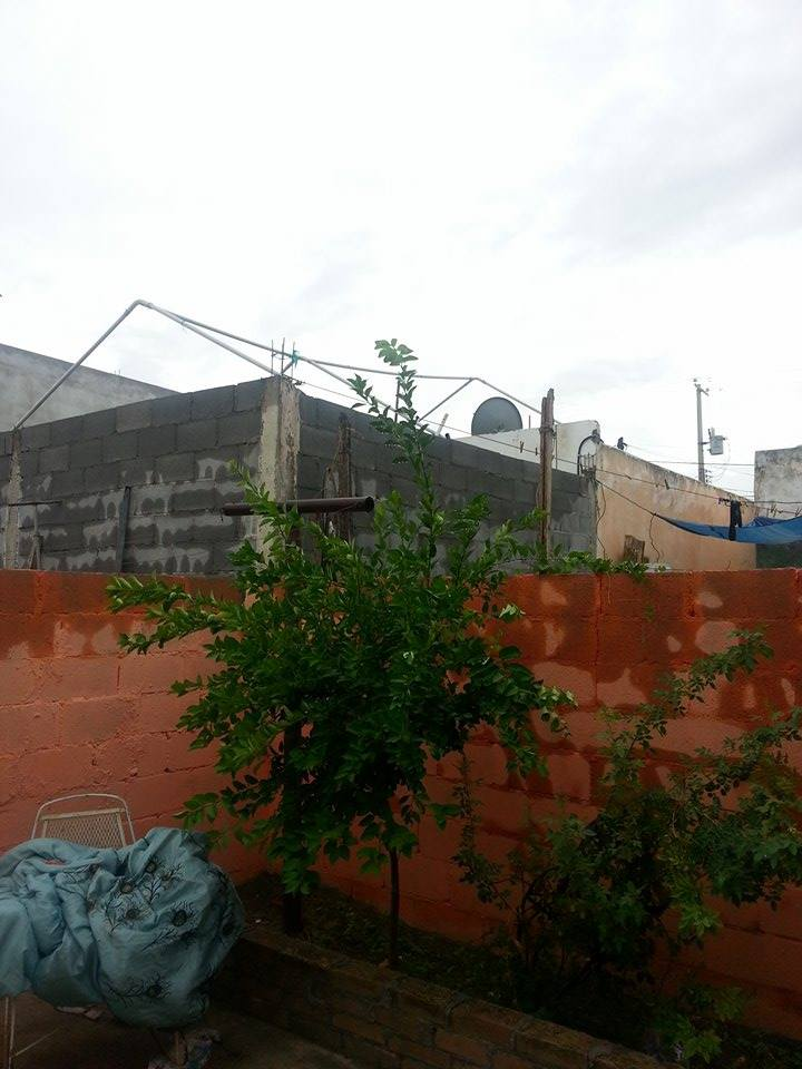 Árbol de Limon Verde, 4 años. Nuevo Laredo, Tamaulipas, México.